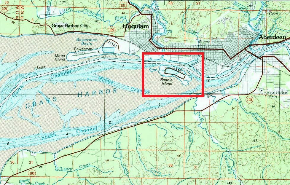 Map showing Rennie Island in Grays Harbor, Washington